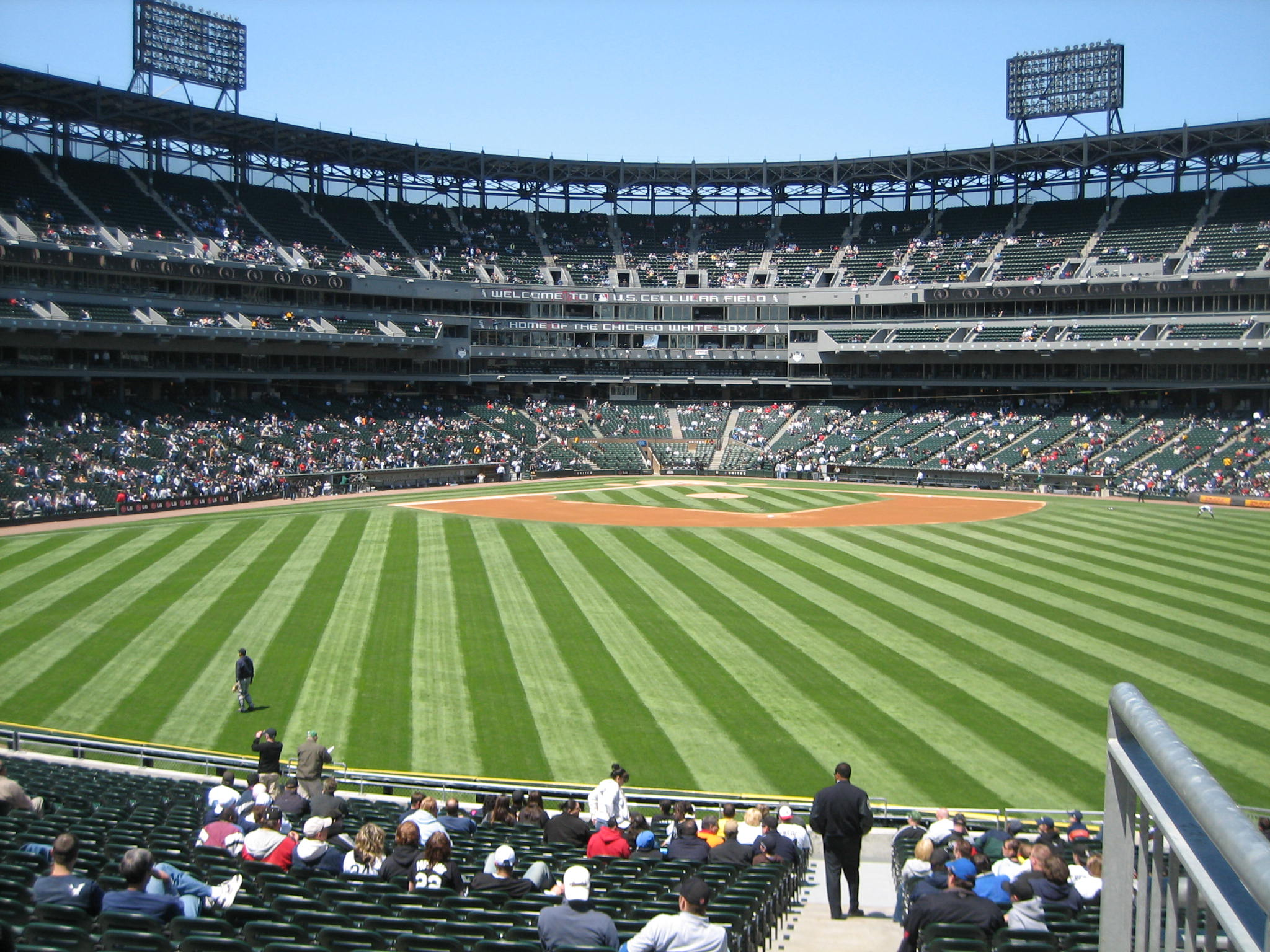 U.S. Cellular Field. Chicago Illinois.